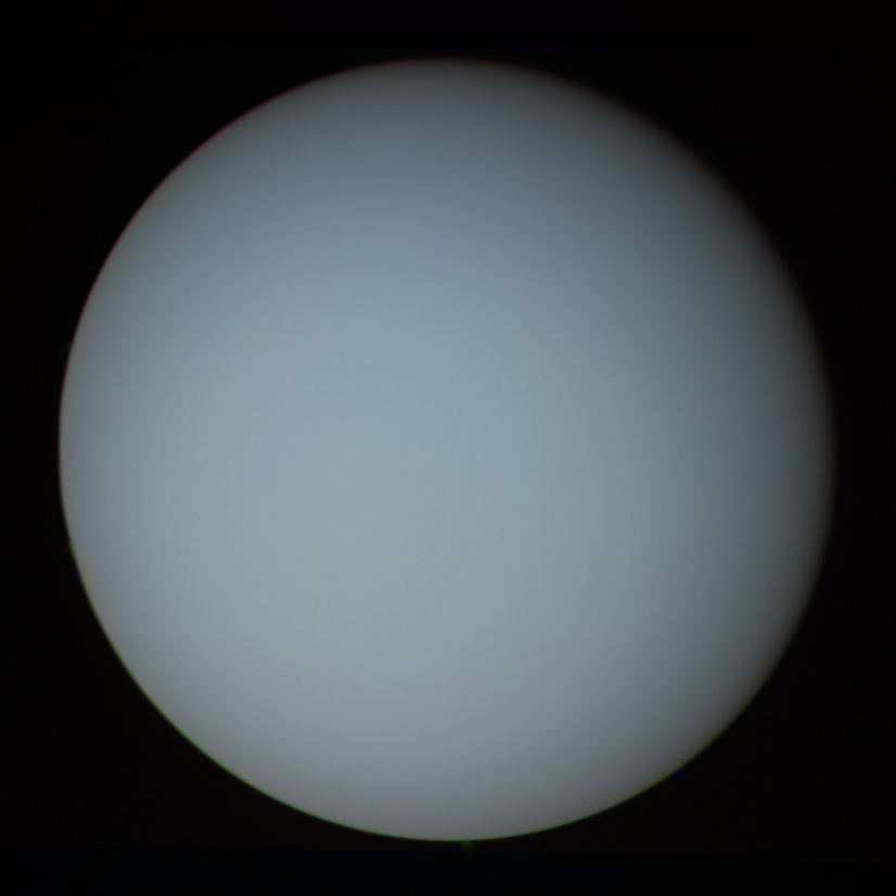 This picture of Uranus in true color was compiled from images returned Jan. 17, 1986, by the narrow-angle camera of Voyager 2. The spacecraft was 9.1 million kilometers (5.7 million miles) from the planet, several days from closest approach. The picture has been processed to show Uranus as human eyes would see it from the vantage point of the spacecraft. The picture is a composite of images taken through blue, green and orange filters. The darker shadings at the upper right of the disk correspond to the day-night boundary on the planet. Beyond this boundary lies the hidden northern hemisphere of Uranus, which currently remains in total darkness as the planet rotates. The blue-green color results from the absorption of red light by methane gas in Uranus' deep, cold and remarkably clear atmosphere. The Voyager project is managed for NASA by the Jet Propulsion Laboratory.